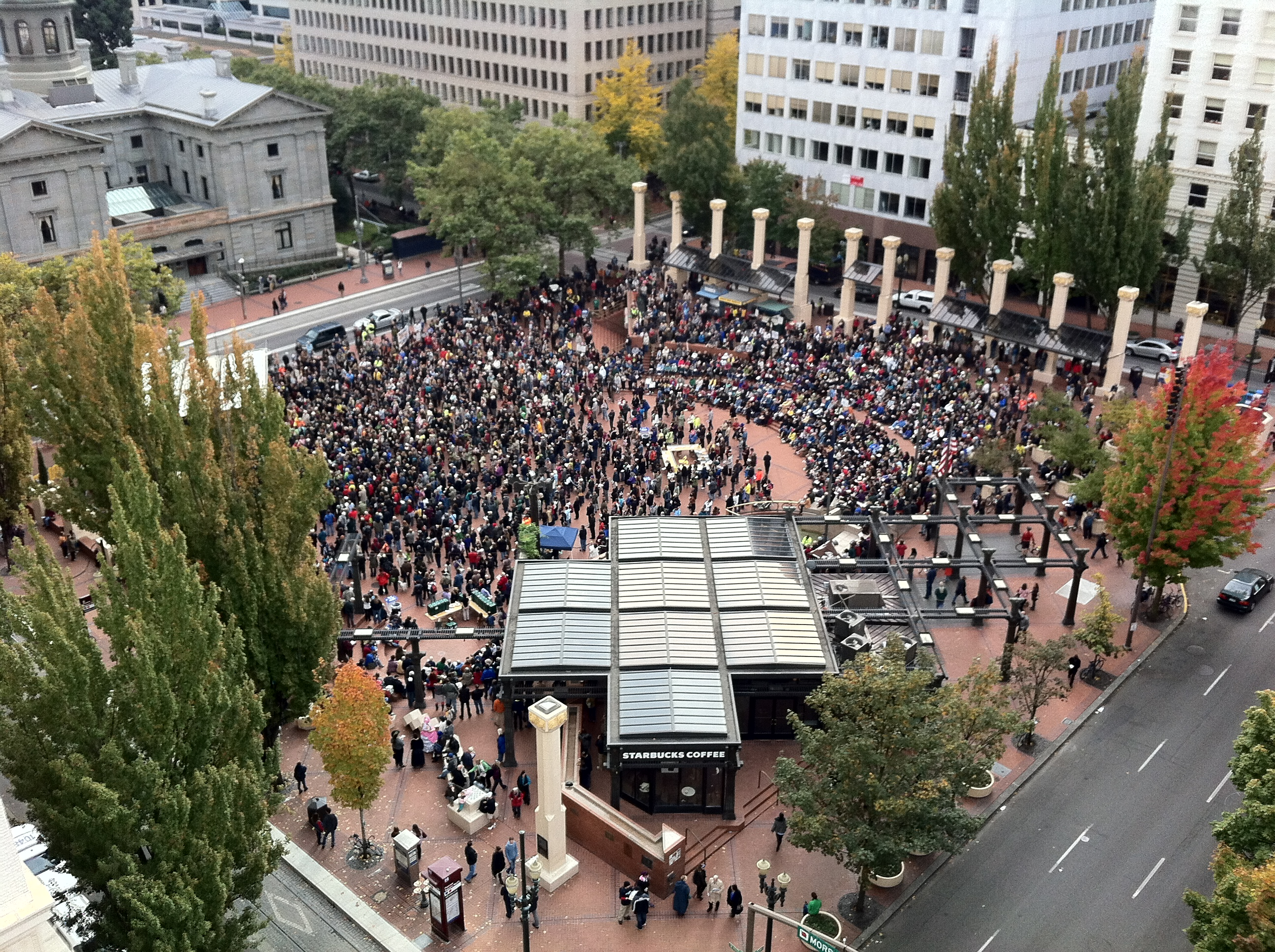 Aerial shot of Occupy Portland rally with Pink Martini orchestra